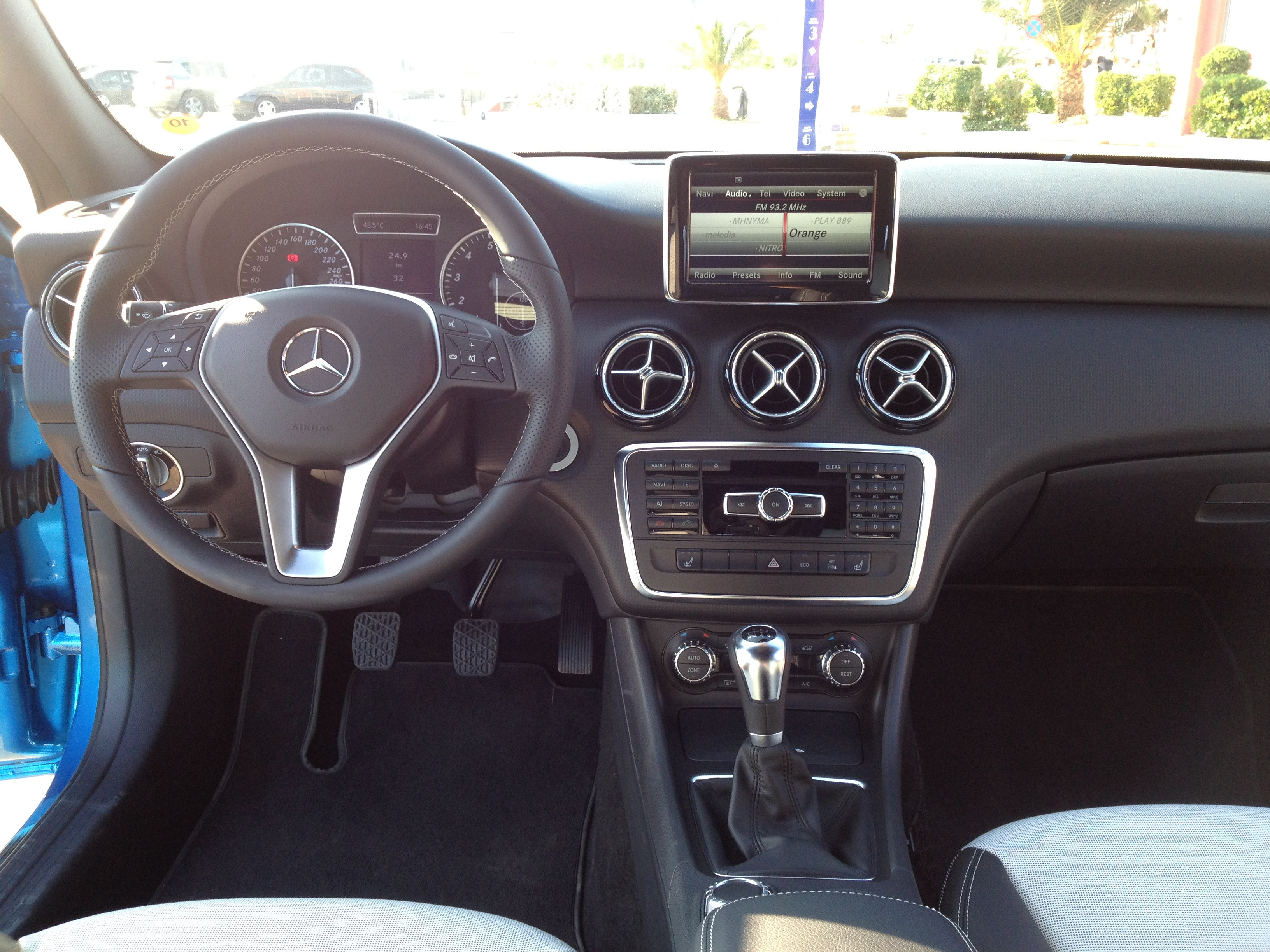 Mercedes A-Class 2012.